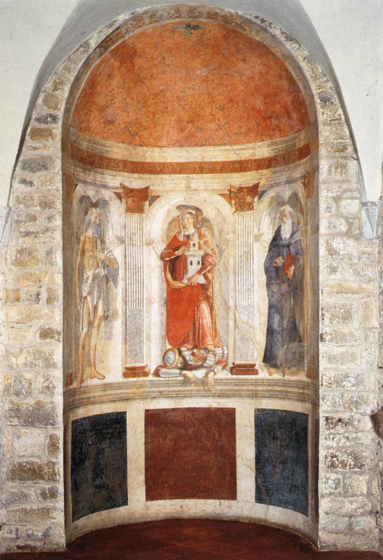 GHIRLANDAIO, Domenico Apse fresco Fresco Parish Church of Sant'Andrea, Cercina